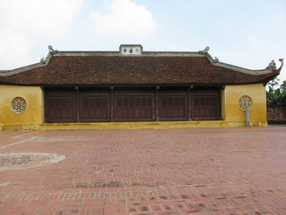 Kim Đai Pagoda, Đình Bảng commune, Từ Sơn district, Bắc Ninh province, Việt Nam